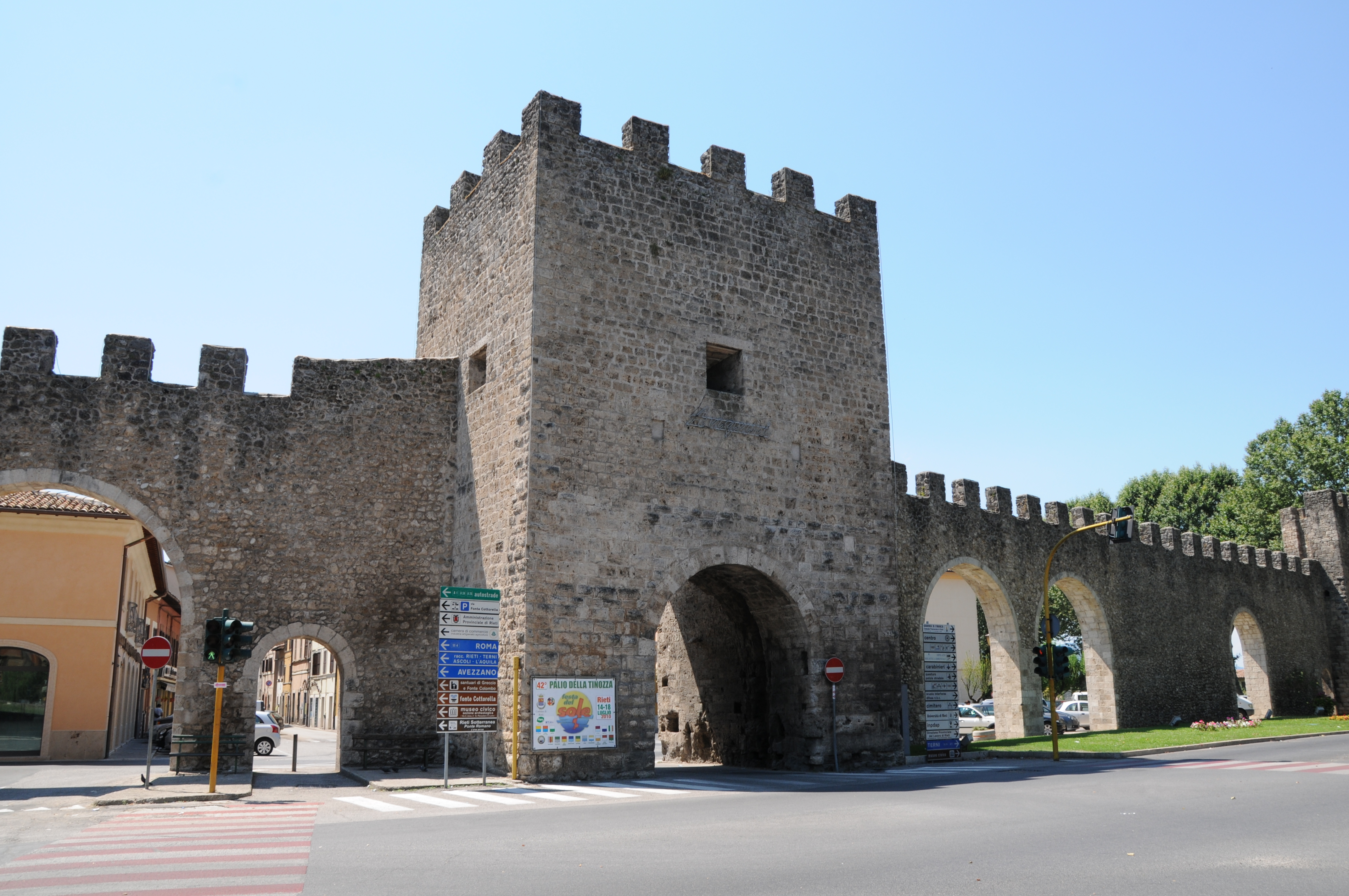 Porta D'Arci gate, part of the medieval walls of Rieti (Lazio, Italy)